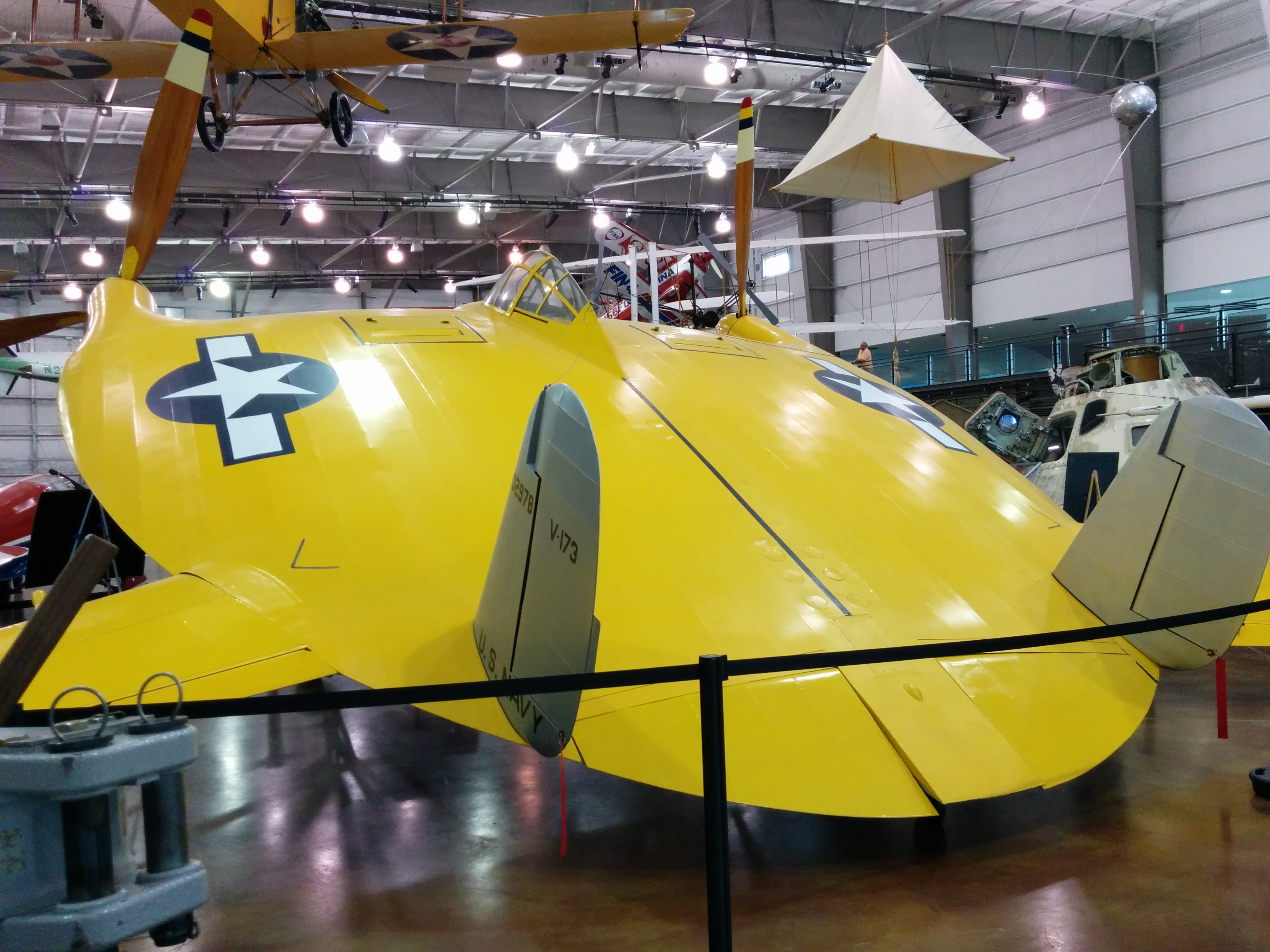 Restored Vought V173 rear view at the Frontiers of Flight Museum in Dallas, TX